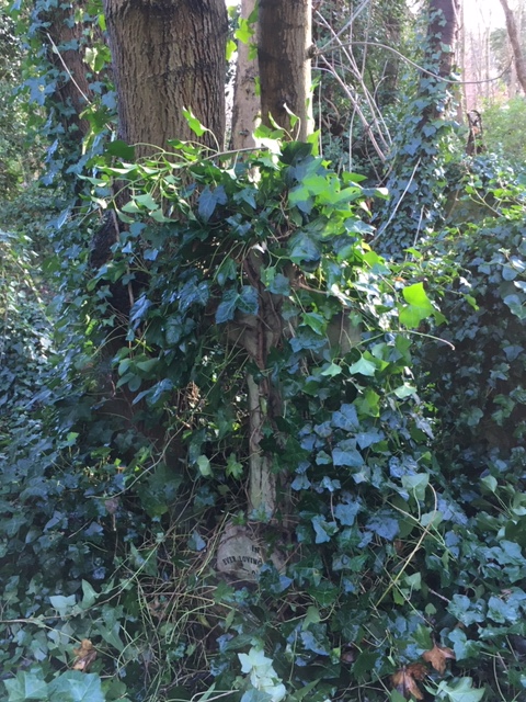 Ivy-enclosed tombstone of the King Hall family in Highgate Cemetery